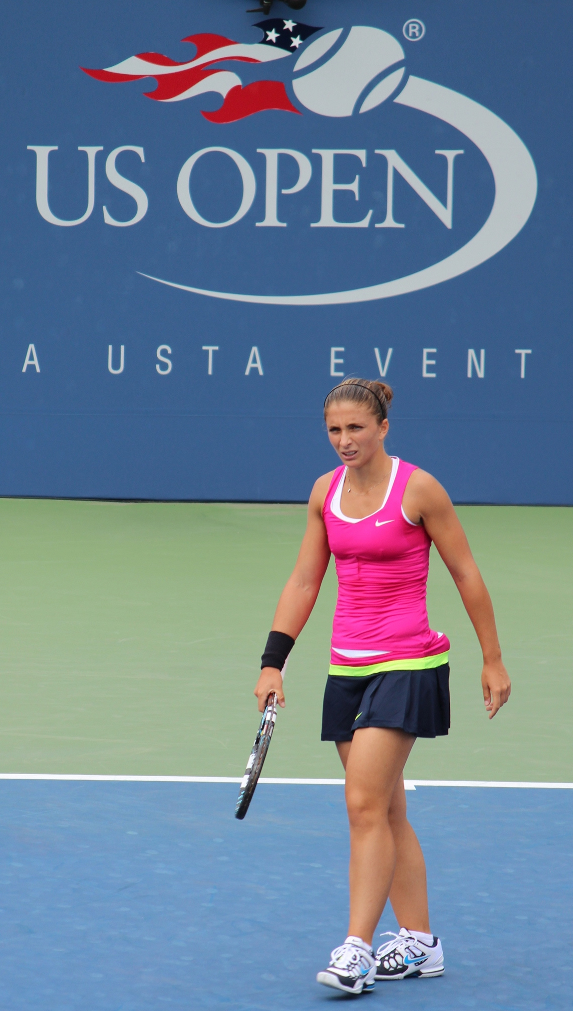 The Italian tennis player Sara Errani